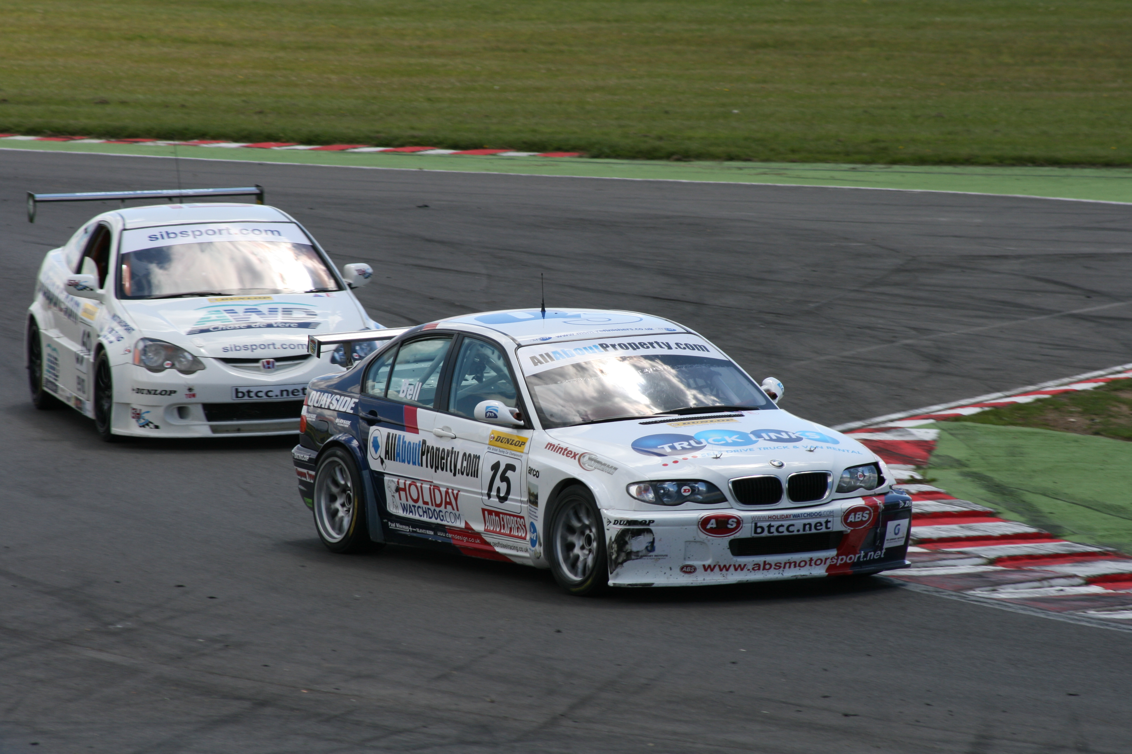 Martyn Bell (BMW) is pursued by Simon Blanckley (Honda) at the Snetterton round of the 2007 BTCC season.